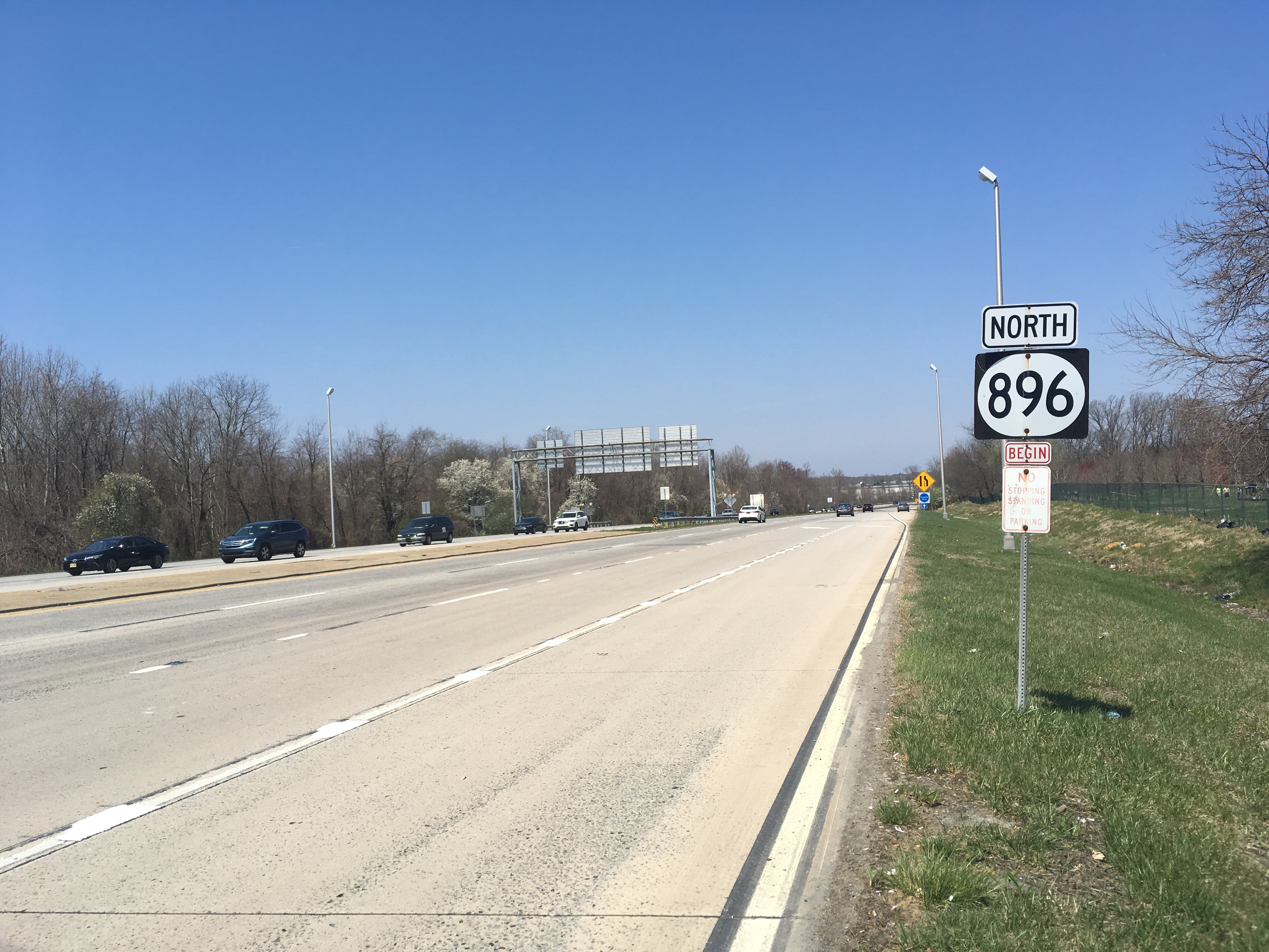 Northbound Delaware Route 896 (South College Avenue) past the intersection with U.S. Route 40 (Pulaski Highway) in Glasgow, Delaware